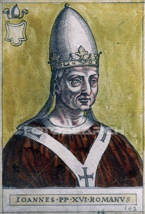 Antipope John XVI (XVII)[997-998] (b. , Rossano, Calabria—d. Aug. 26, 1001), a monk of Greek descent who was antipope from 997 to 998. Border trimmed.